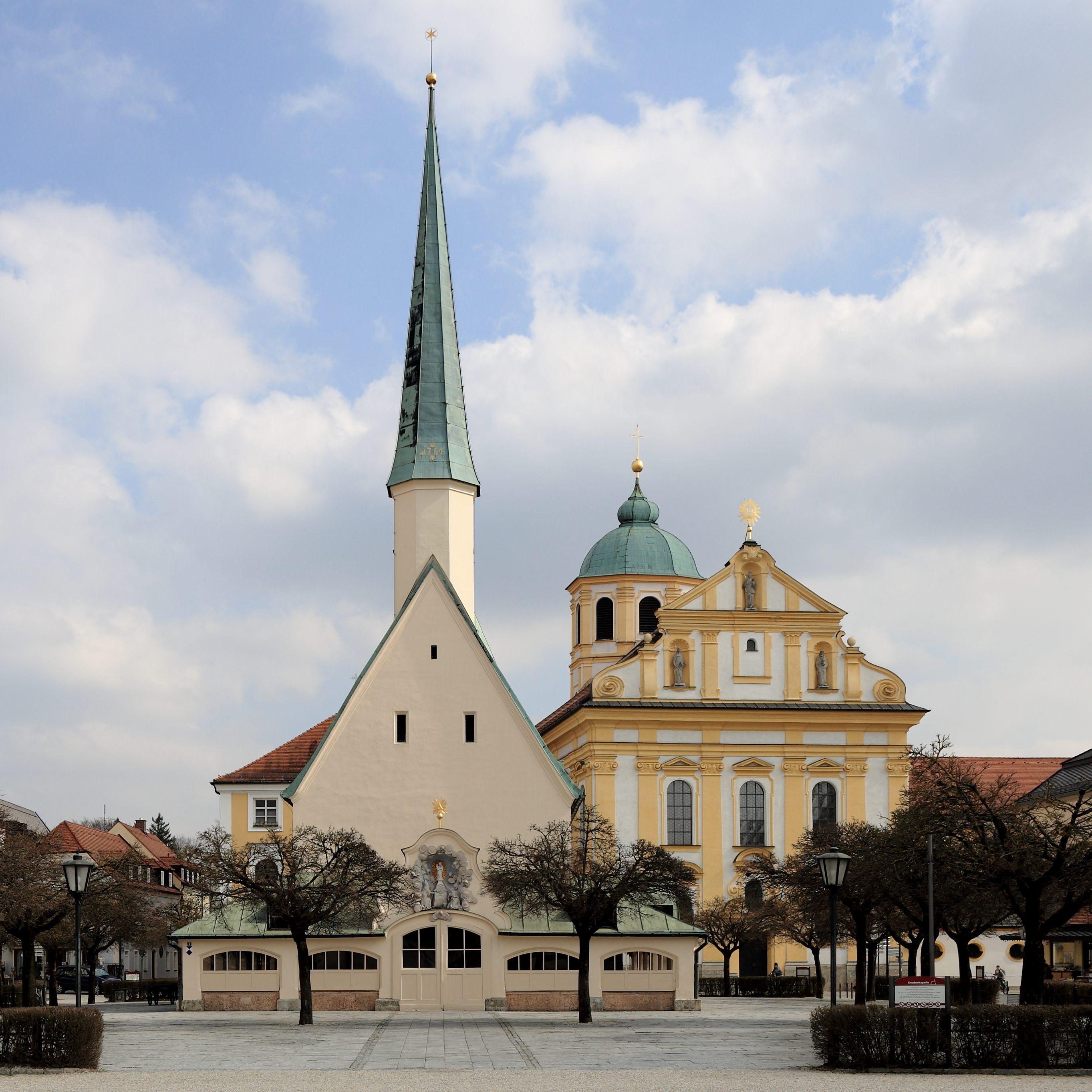 Chapel of Grace and St. Magdalena, Altoetting